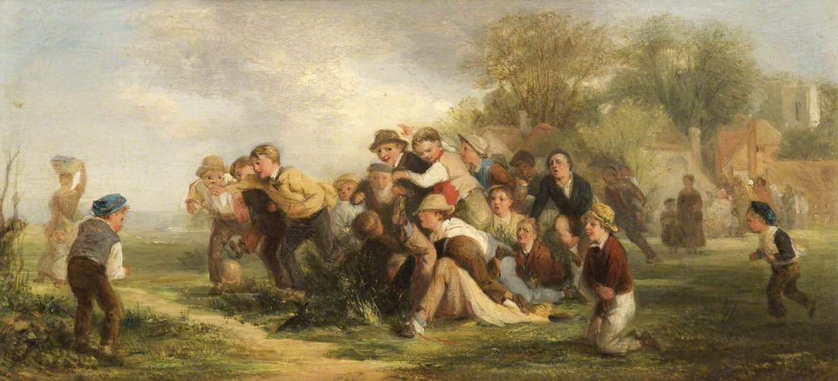 A Football Game, painting exhibited at the National Football Museum.